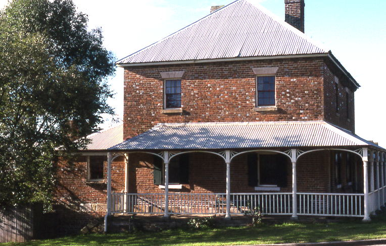 home, windsor, australia